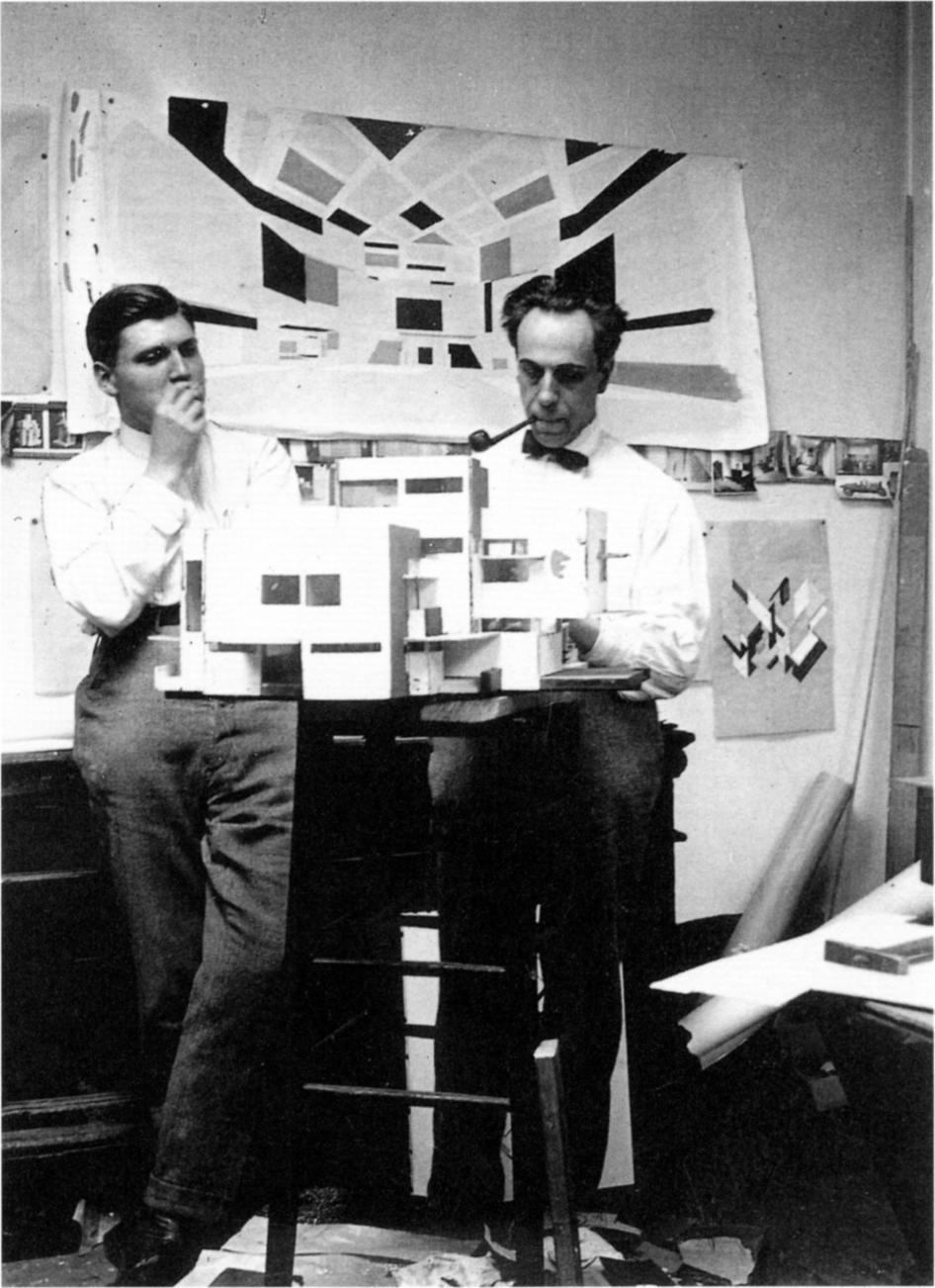 Anonymous. Theo van Doesburg (right) and C. van Eesteren (left) working on their architectural models in their studio in Paris. 1923. Photo. Rotterdam, Netherlands Architecture Institute.